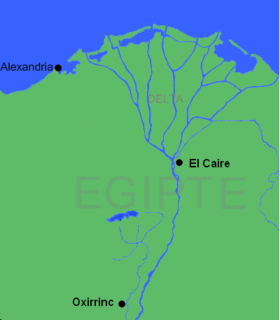 Map of the location of Oxyrhynchos